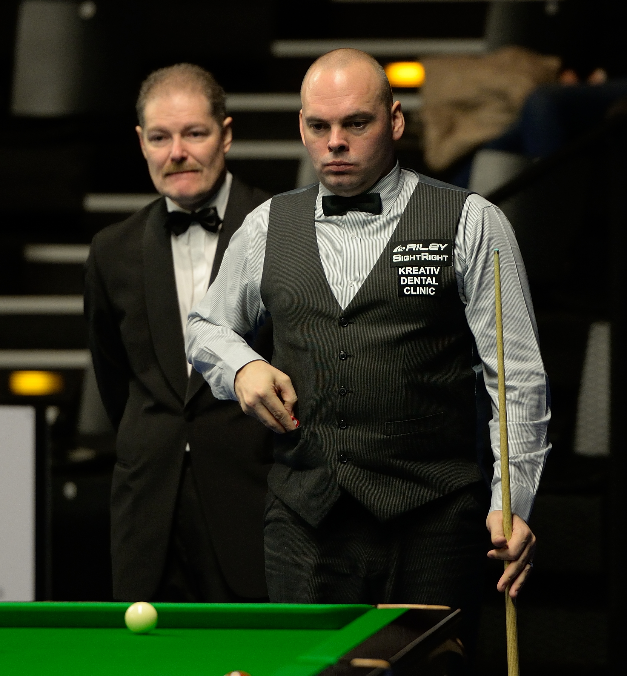 Picture taken in Berlin during the Snooker German Masters in 2015. Stuart Bingham, Jan Scheers.